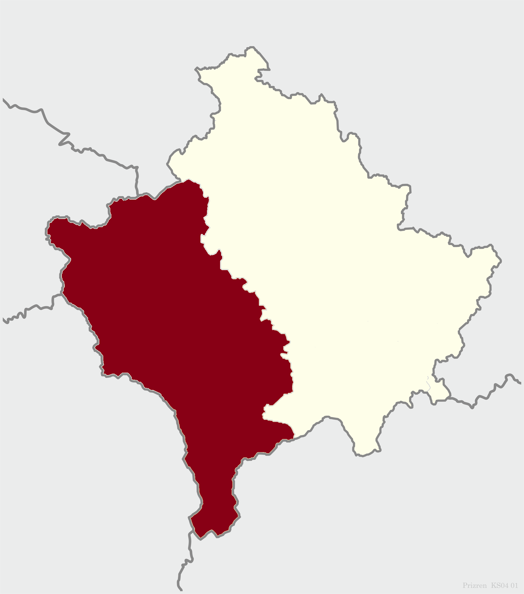 Districts of Gjakova, Prizren and Peja. Between 1387 and 1459, the area was a part of the Principality of Dukagjini.